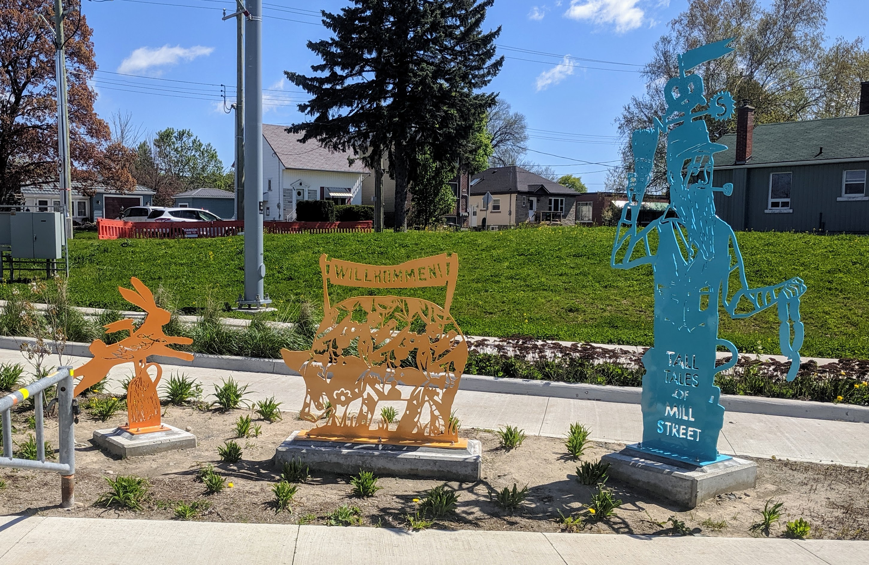 Tall Tales of Mill Street, sculpture by Terry O’Neill and Tara Cooper, completed 2019. Ottawa street at Mill street, Kitchener, Ontario.